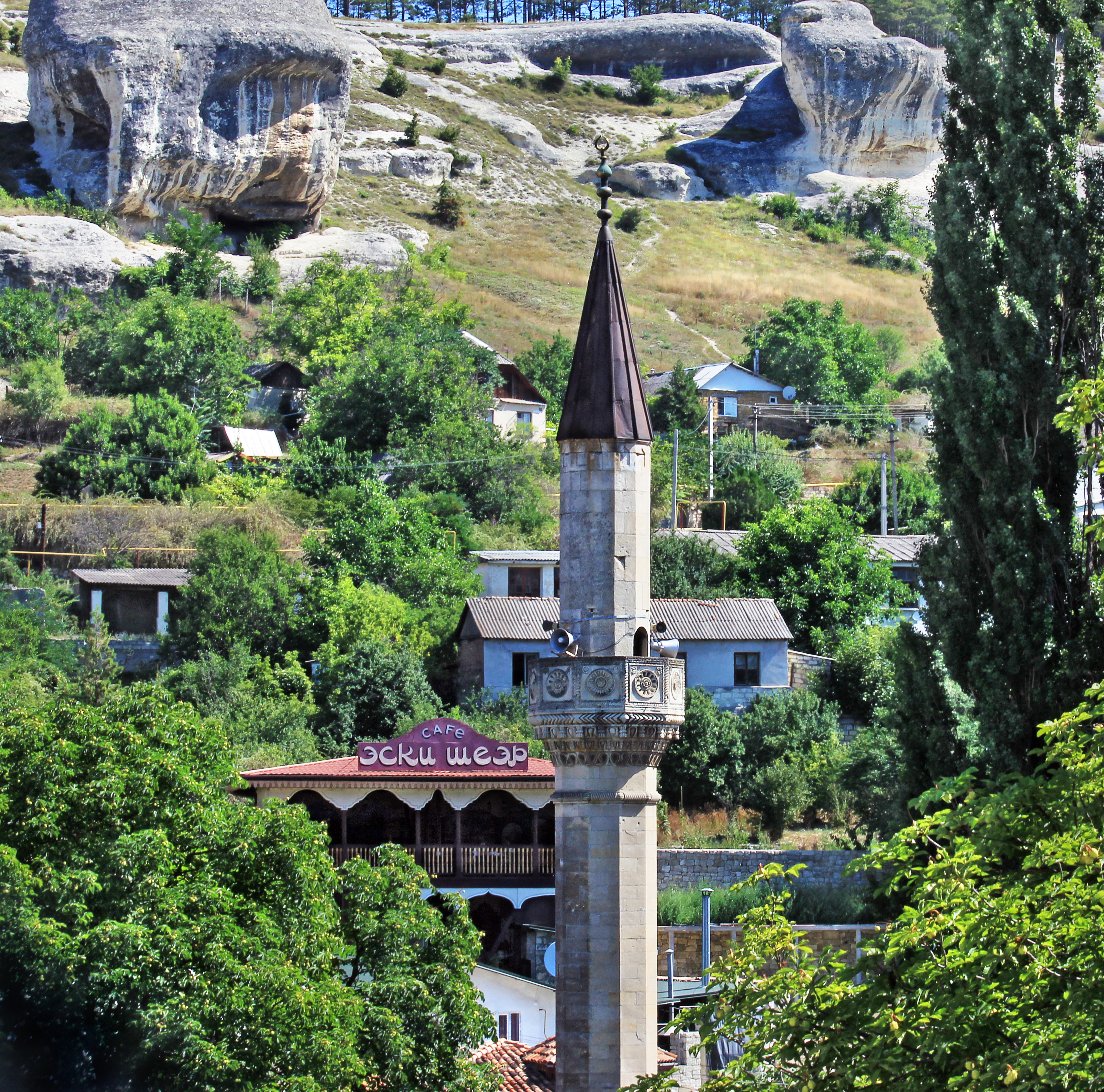 Minaret of a mosque in Bakhchisaray palace